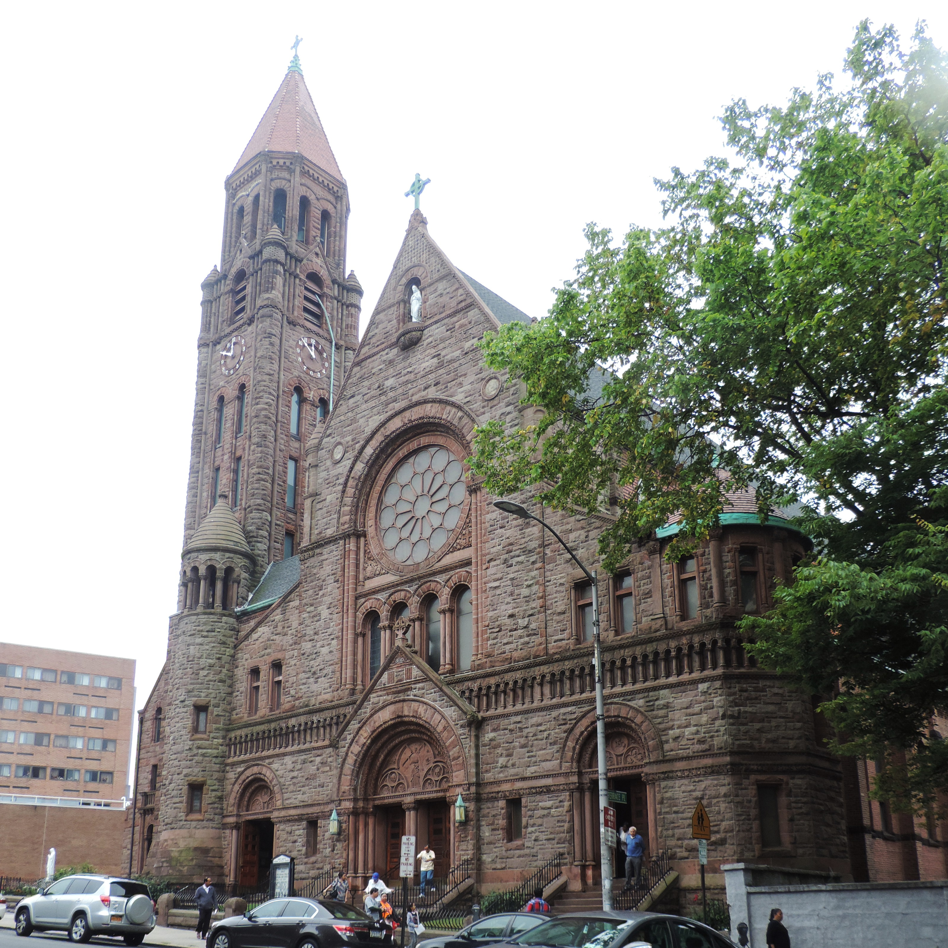 Looking southwest at church on a cloudy midday.